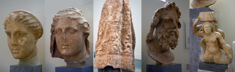 statues of the temple of Despoina at Lycosura